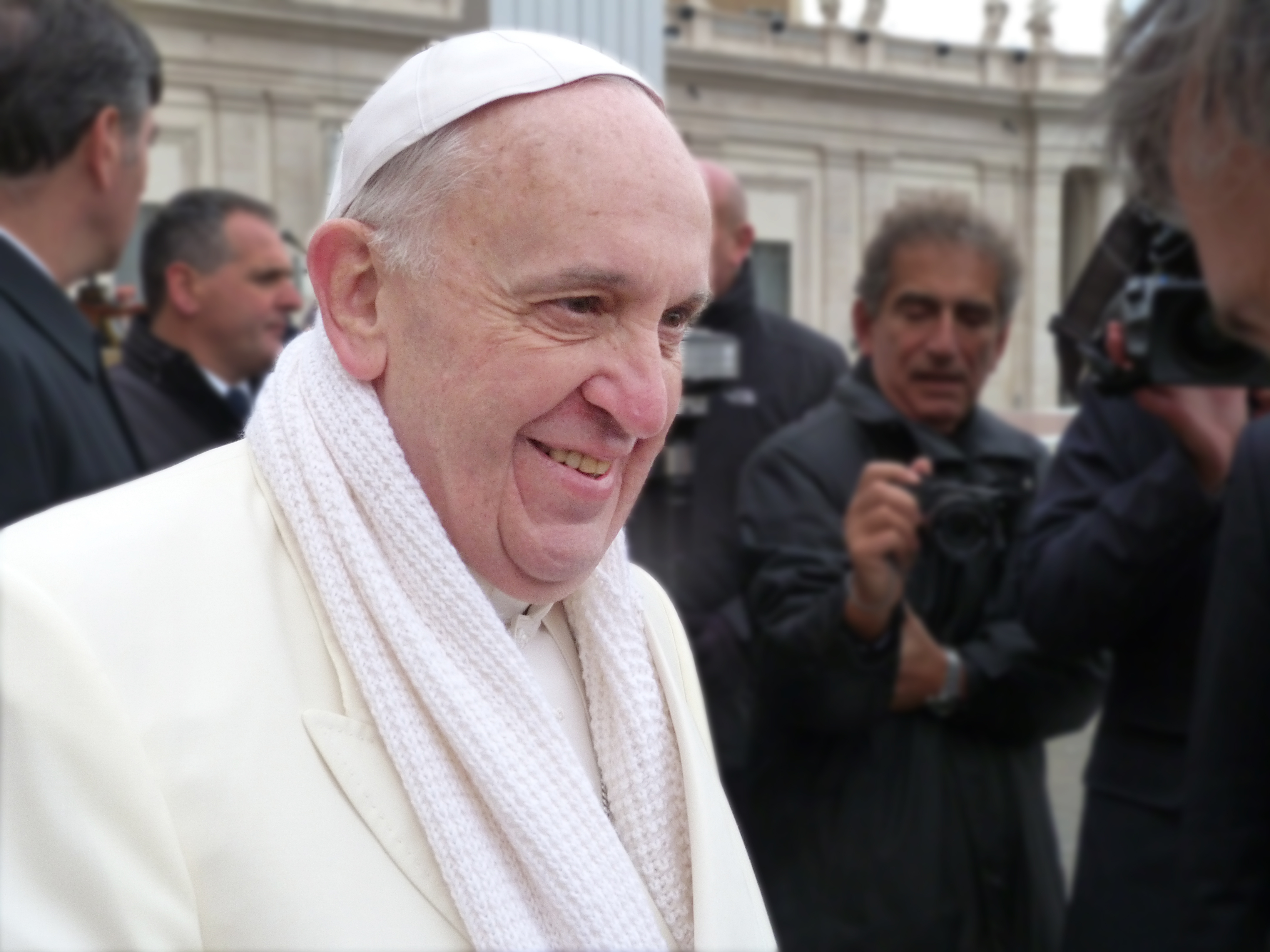 Pope Francis in St. Peter's Square. November 27, 2013.